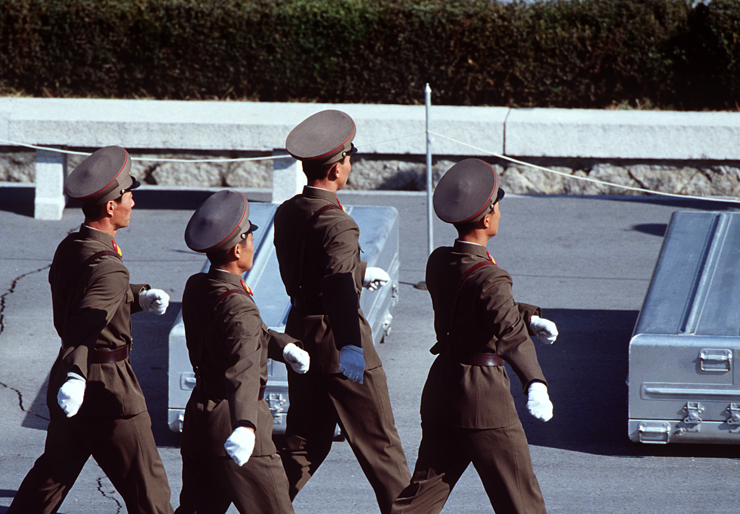 Korean People's Army Soldiers prepare to repatriate remains during a repatriation ceremony at the Panmunjom Joint Security Area on Nov. 6, 1998. Repatriation of Korean War remains are a result of a joint U.S./Democratic Peoples Republic of Korea joint recovery operation within North Korea to locate and return the U.S. service members to their homeland through Panmunjom. Twenty-nine service members have been returned since the joint recovery operation began in 1996. (U.S. Air Force photo by TSgt James Mossman) (Released)